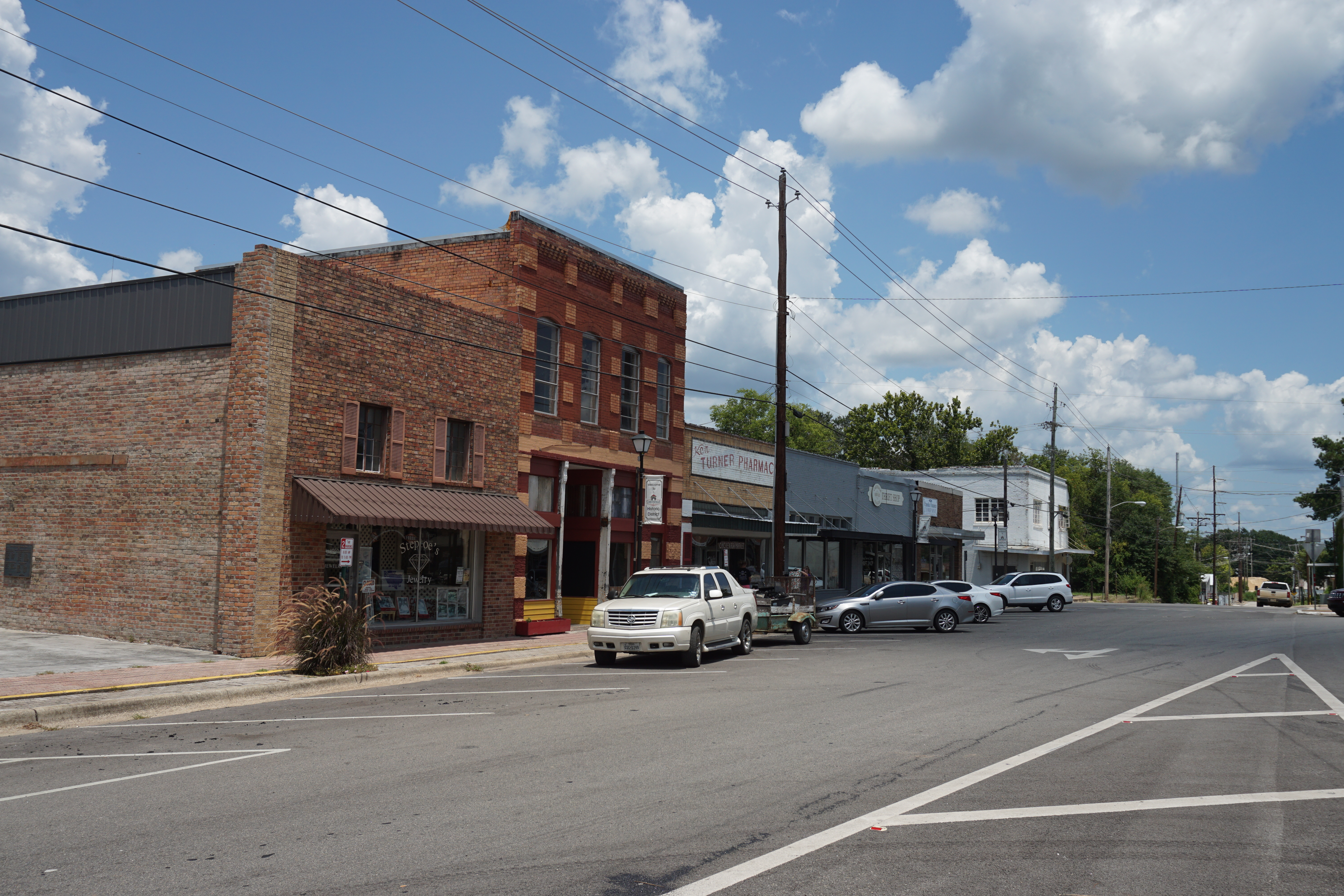 Panola Street in Carthage, Texas (United States).